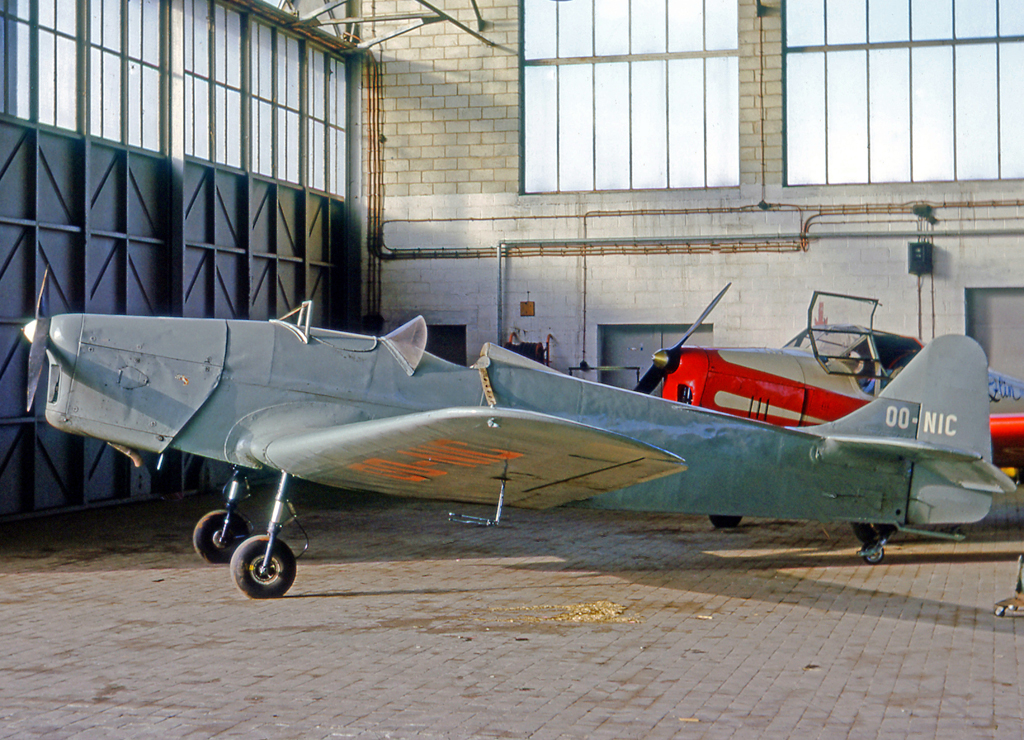 Miles M.14A Hawk Trainer III OO-NIC Ghent airfield in 1965